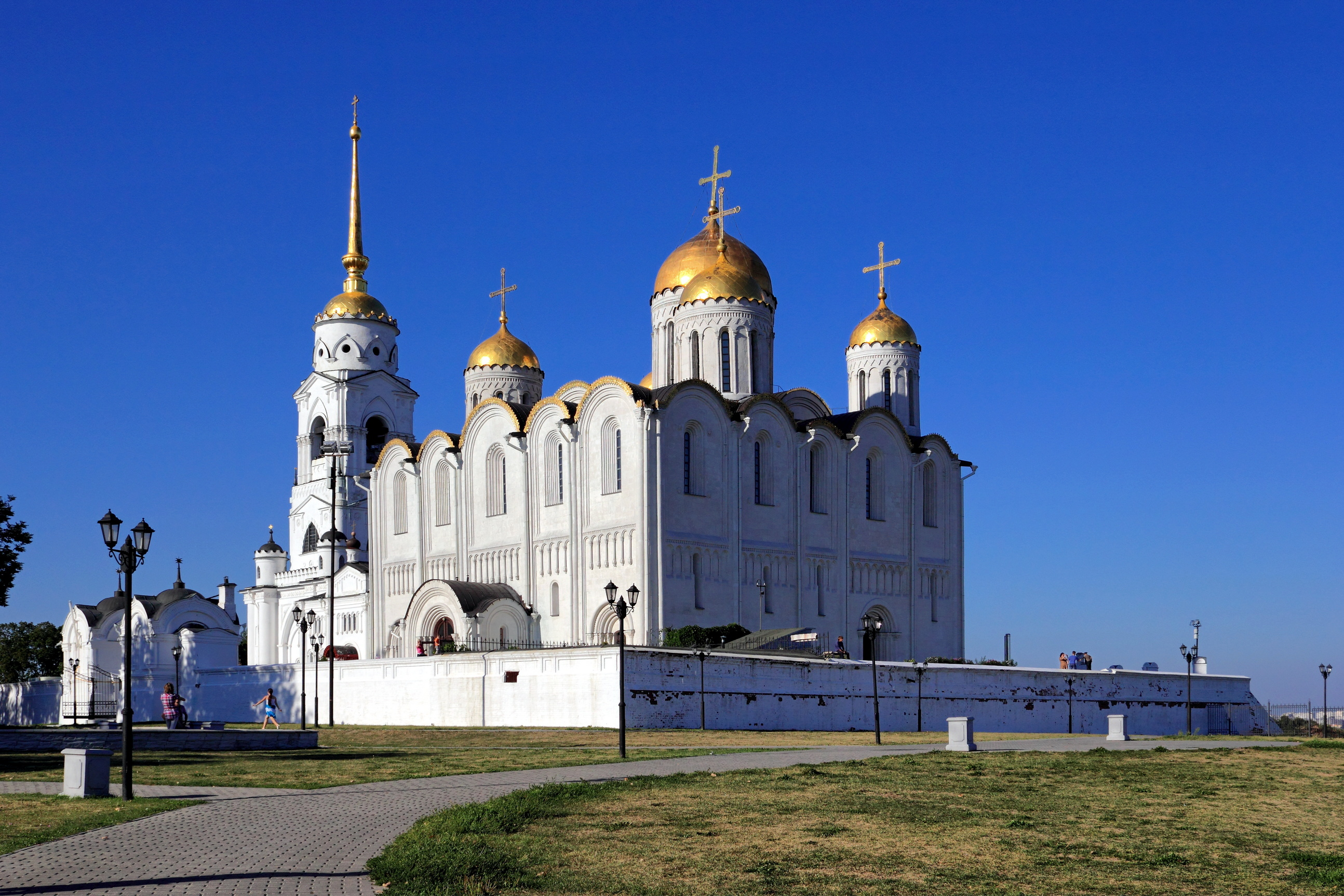 Vladimir. Dormition Cathedral